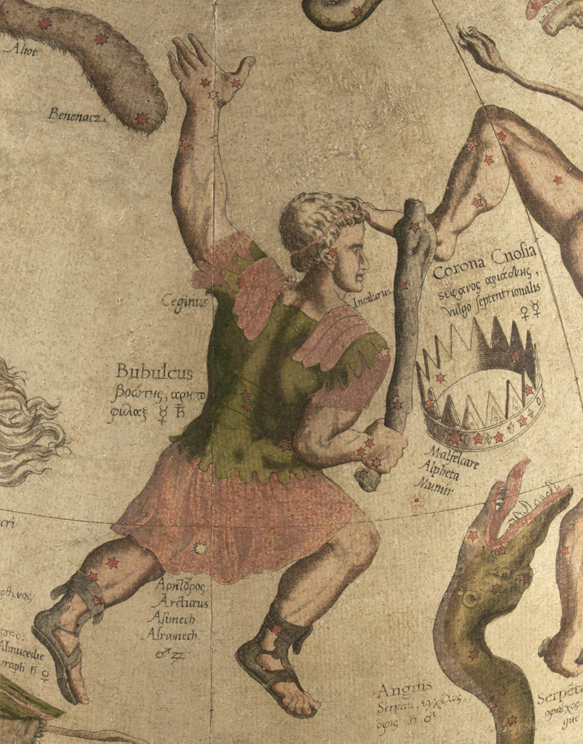 Boötes and Corona Borealis constellations from the Mercator celestial globe.